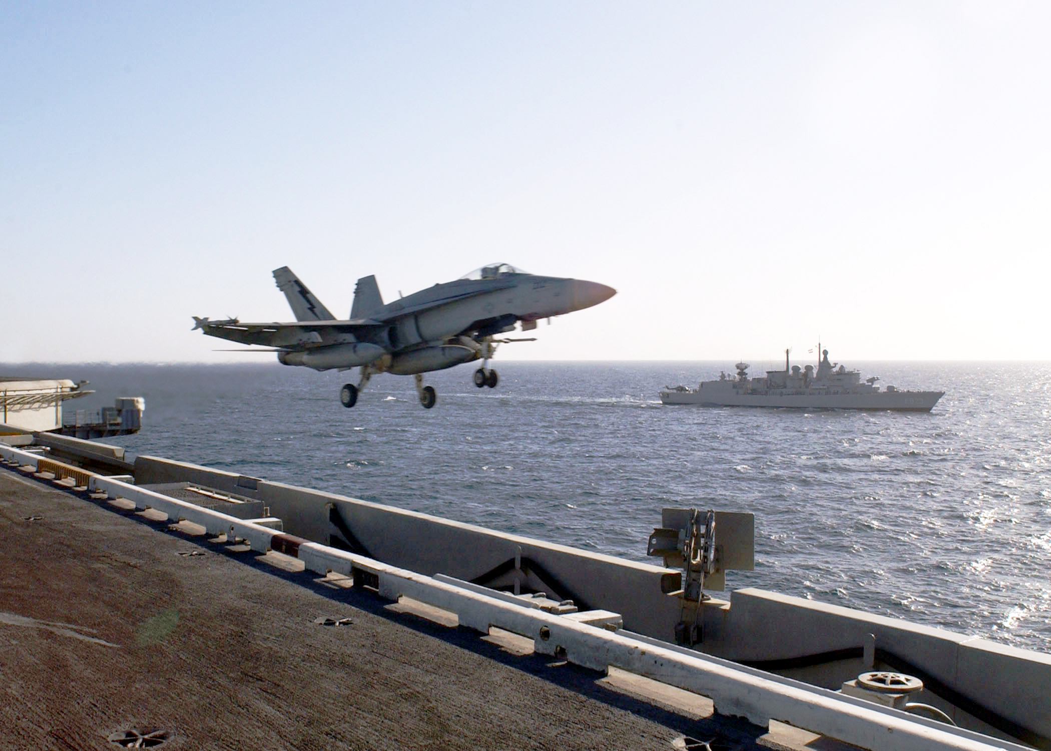 A U.S. Marine Corps McDonnell Dogulas F/A-18C Hornet from VMFA-251 Thunderbolts is launched from the flight deck of the U.S. Navy aircraft carrier USS Theodore Roosevelt (CVN-71) on 16 January 2002. The Royal Netherlands Navy frigate Philips Van Almonde (F 823) acts as a plane guard during flight operations. VMFA-251 was part of Carrier Air Wing One (CVW-1), deployed in support of Operation Enduring Freedom.